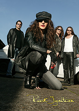 hard rock band Rock Ignition